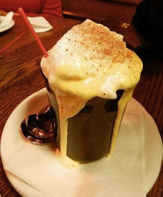 A Tom & Jerry as prepared at Karl Ratzsch's restaurant in Milwaukee, Wisconsin.